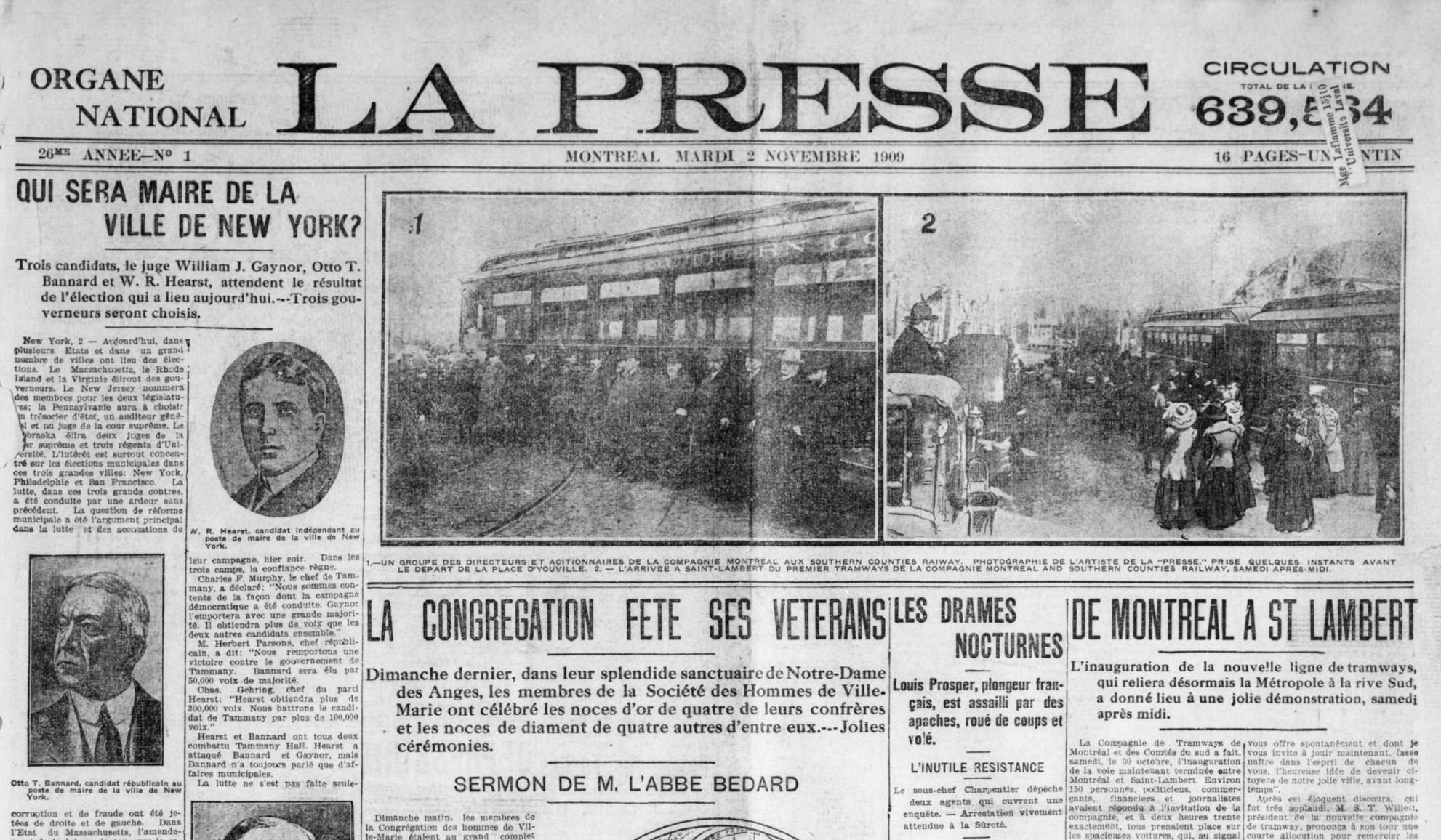 Headline DE MONTRÉAL À SAINT-LAMBERT (From Montreal to Saint Lambert) and photos of the inauguration of the Montreal and Southern Counties Railway on the front page of Montreal's La Presse newspaper.